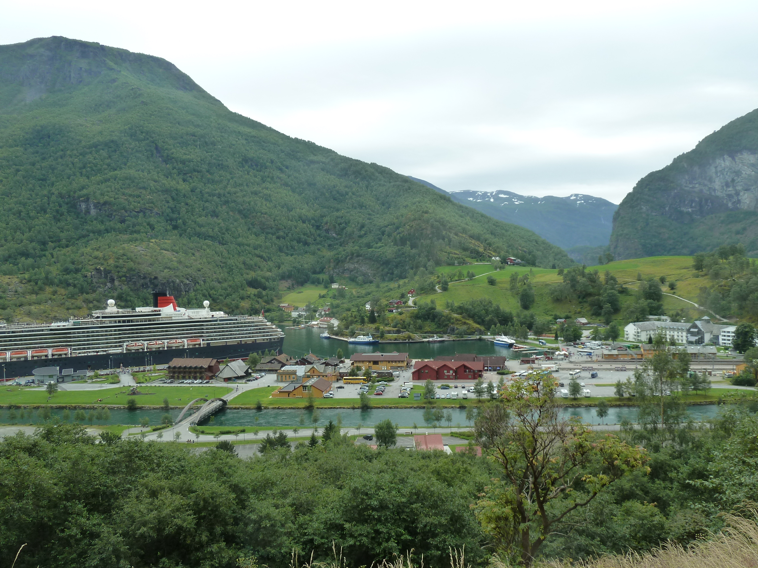 Queen Victoria, in Flåm, Norway